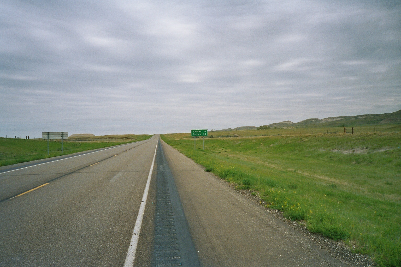 Slope County